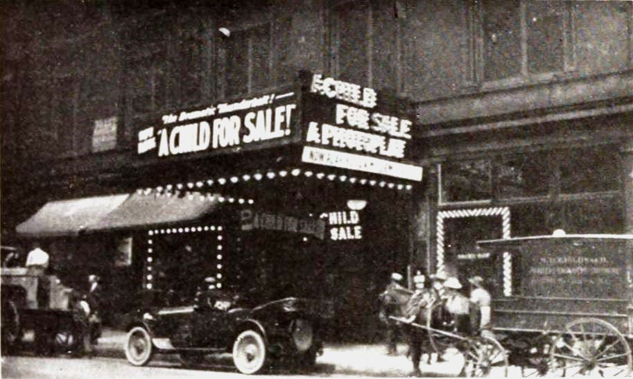 The La Salle Theater in Chicago, Illinois, showing the American drama film A Child for Sale (1920), on page 73 of the September 18, 1920 Exhibitors Herald.